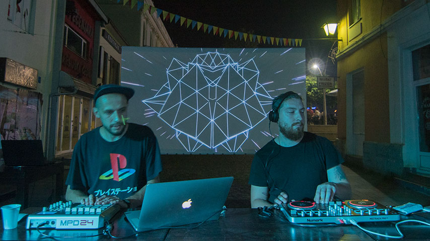 Fa11out perfroming at Art Distrikt opening night